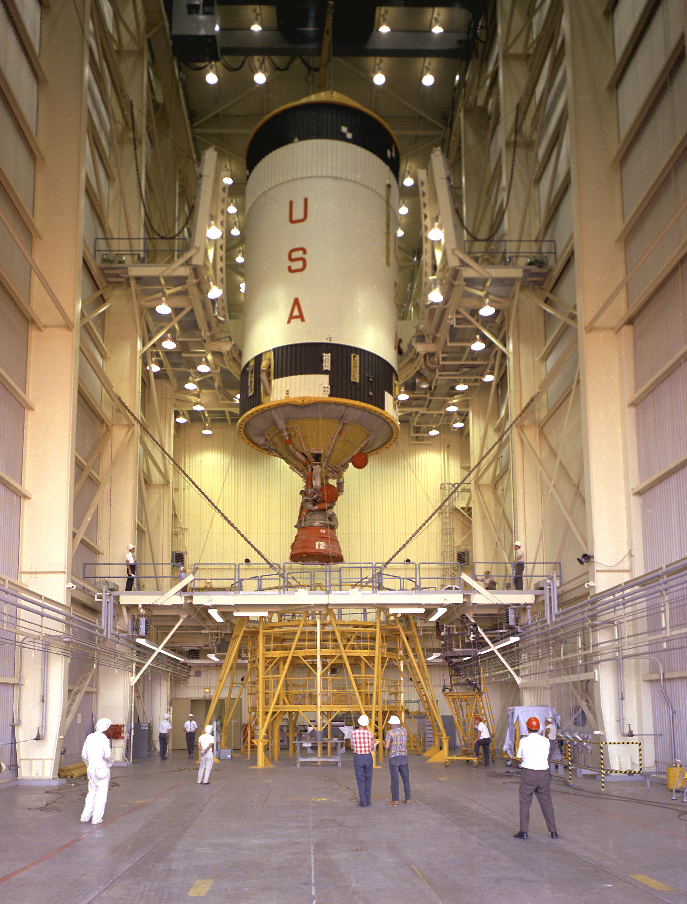 Workmen remove the Saturn IB S-IVB-206 from the Vehicle Assembly Building at the Kennedy Space Center.